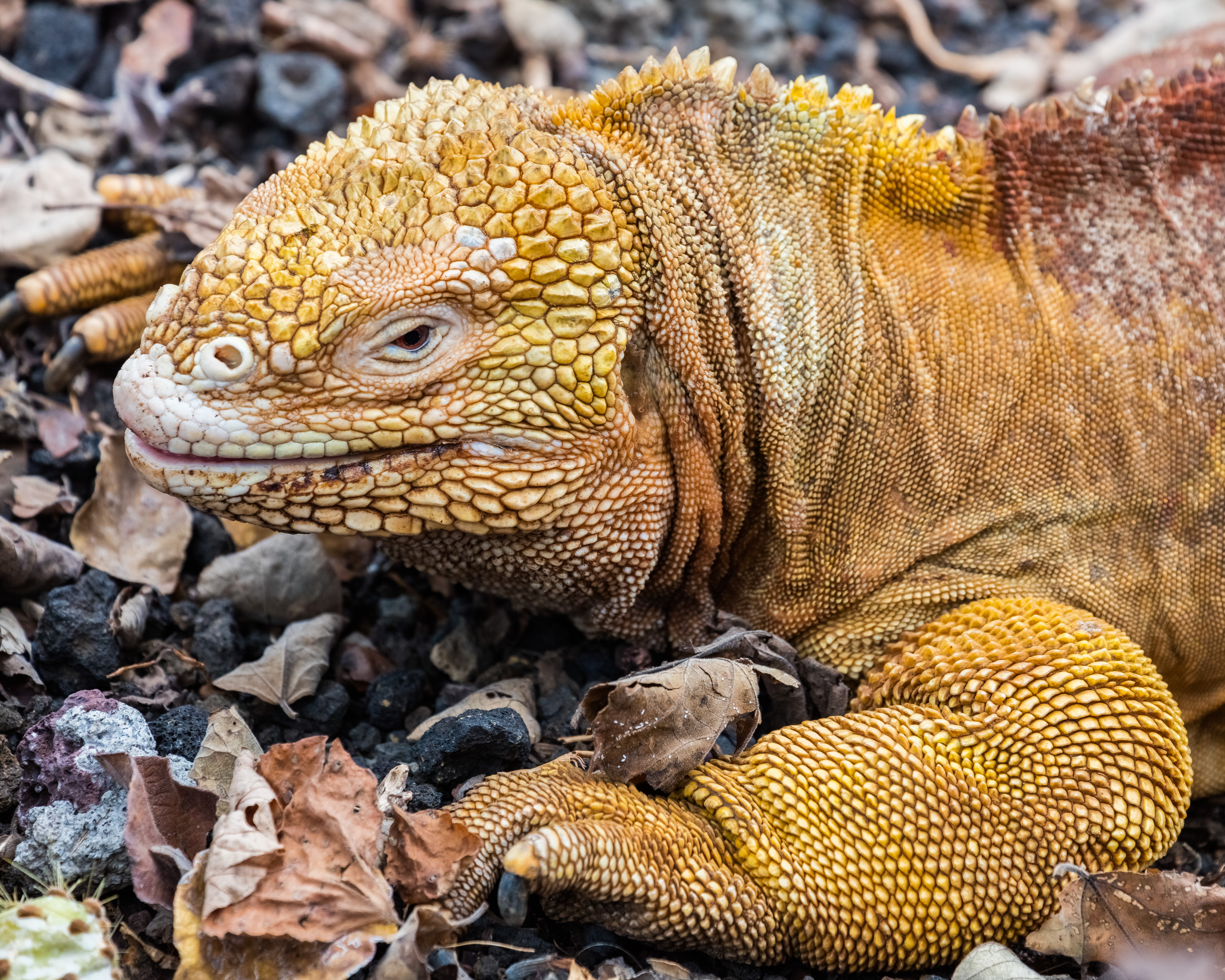 Galapagos land iguana (Conolophus subcristatus), Santa Cruz island, Galapagos islands, Ecuador